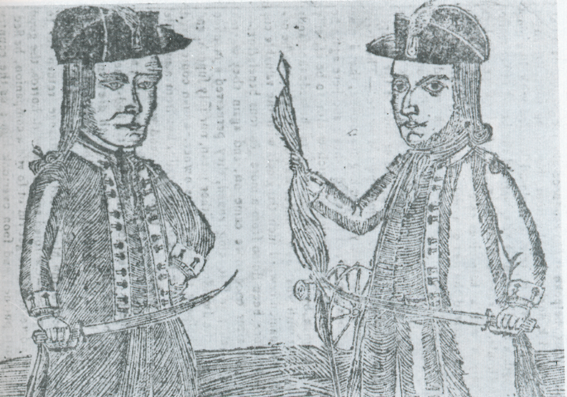 "Shays's Rebellion." The portraits of Daniel Shays and Job Shattuck, leaders of the Massachusetts "Regulators,"